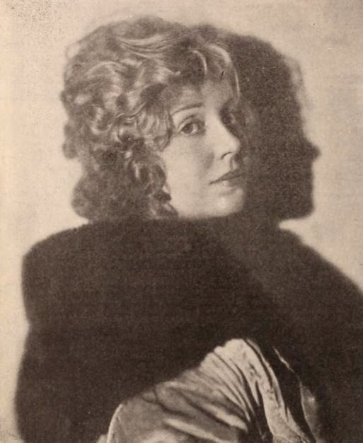 Actress Violet MacMillan, on page 78 of the January 31, 1920 Exhibitors Herald.